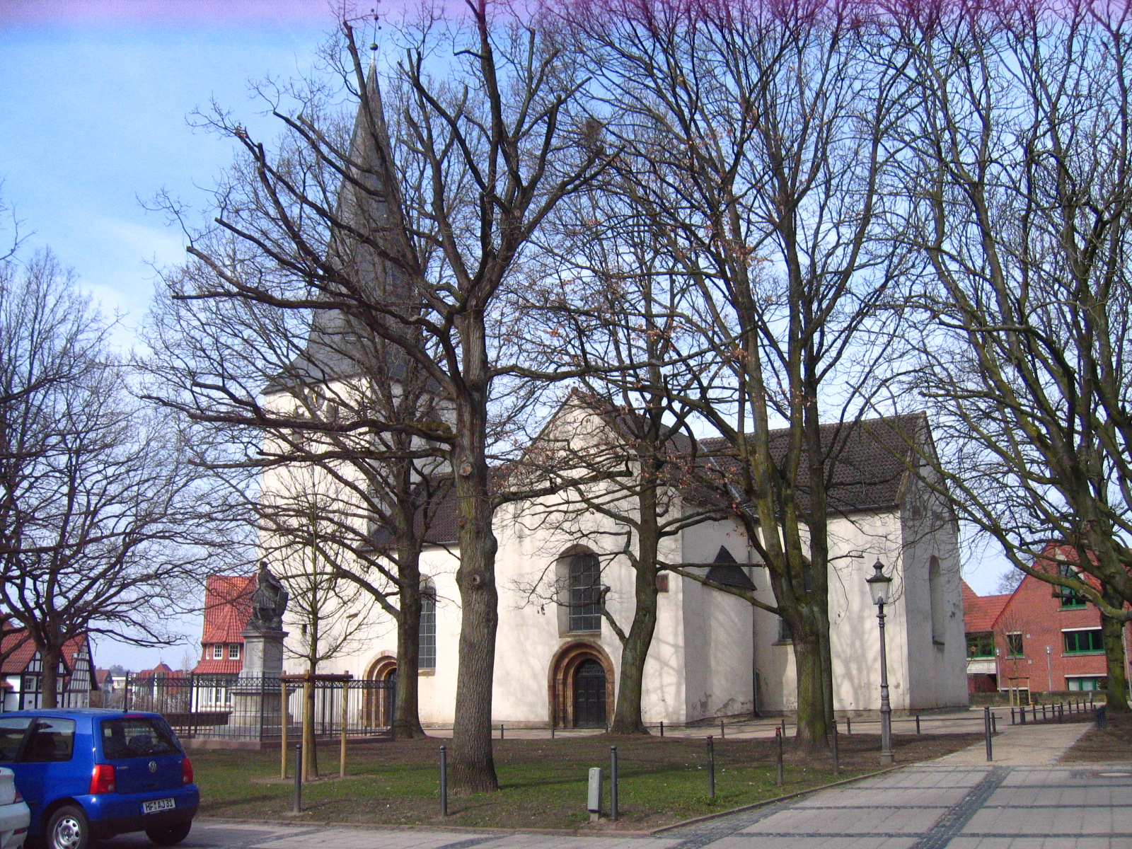 in Bünde, District of Herford, North Rhine-Westphalia, Germany.